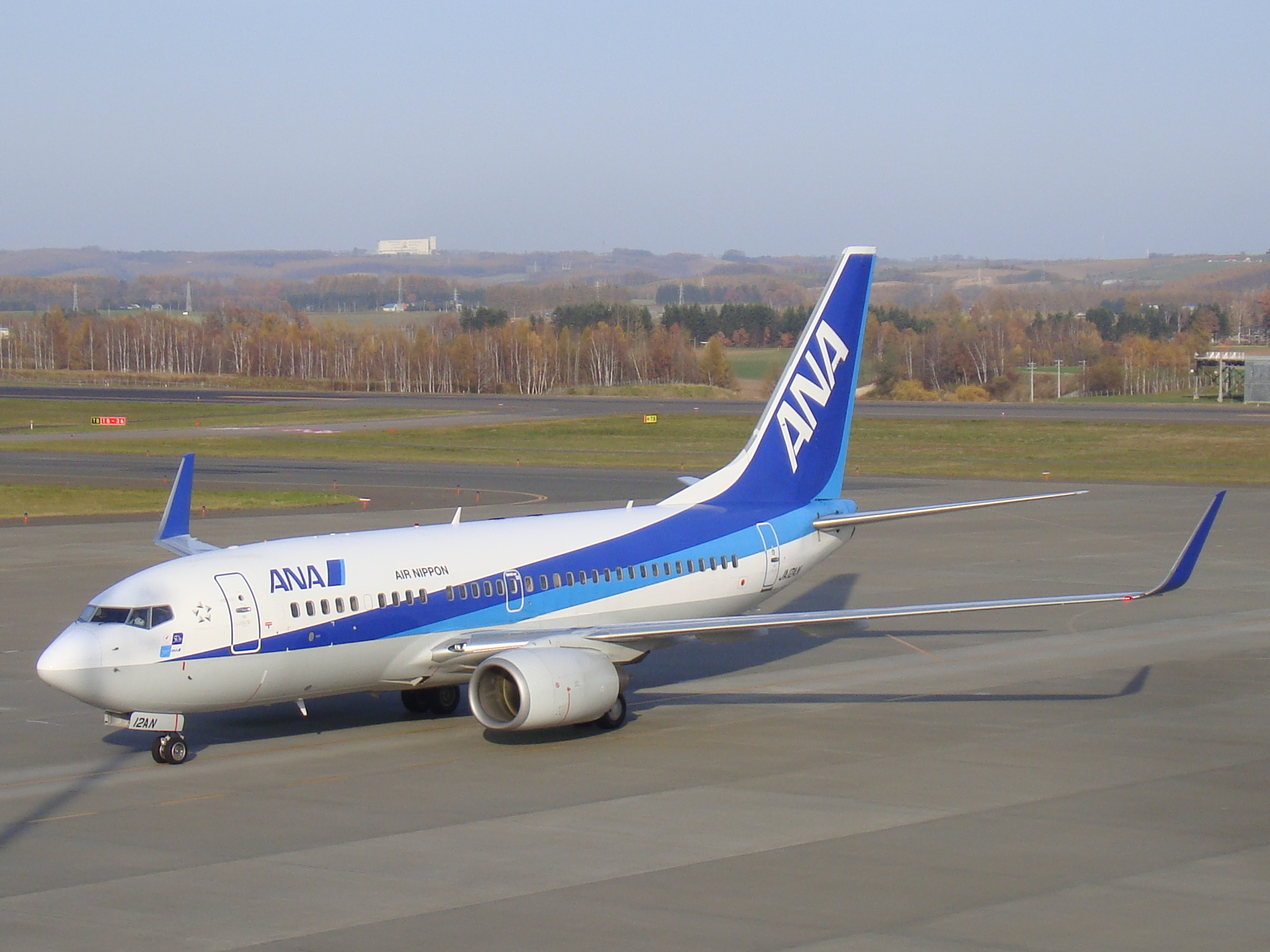 All Nippon Airways(Air Nippon) Boeing 737-700 JA12AN